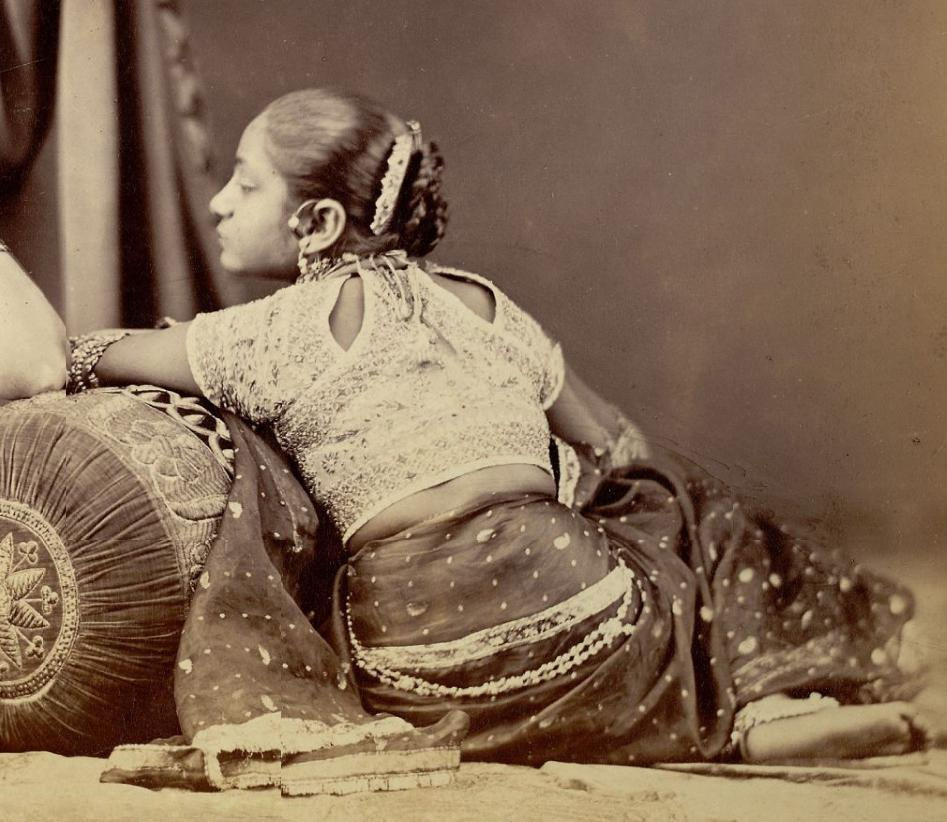 Many examples of jewellery from India were exhibited at the London Universal Exhibition of 1872 and this photograph may have been one of those shown to demonstrate the way it was worn.